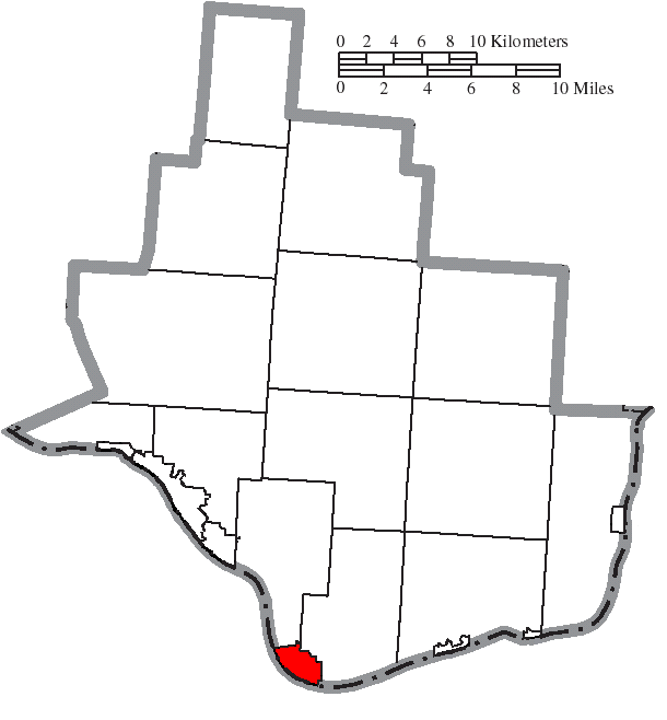 Map of the municipal and township boundaries of Lawrence County, Ohio, United States, as of the 2000 census, with the location of the village of South Point highlighted. Township borders are shown only in unincorporated areas in order to differentiate incorporated and unincorporated areas more clearly.